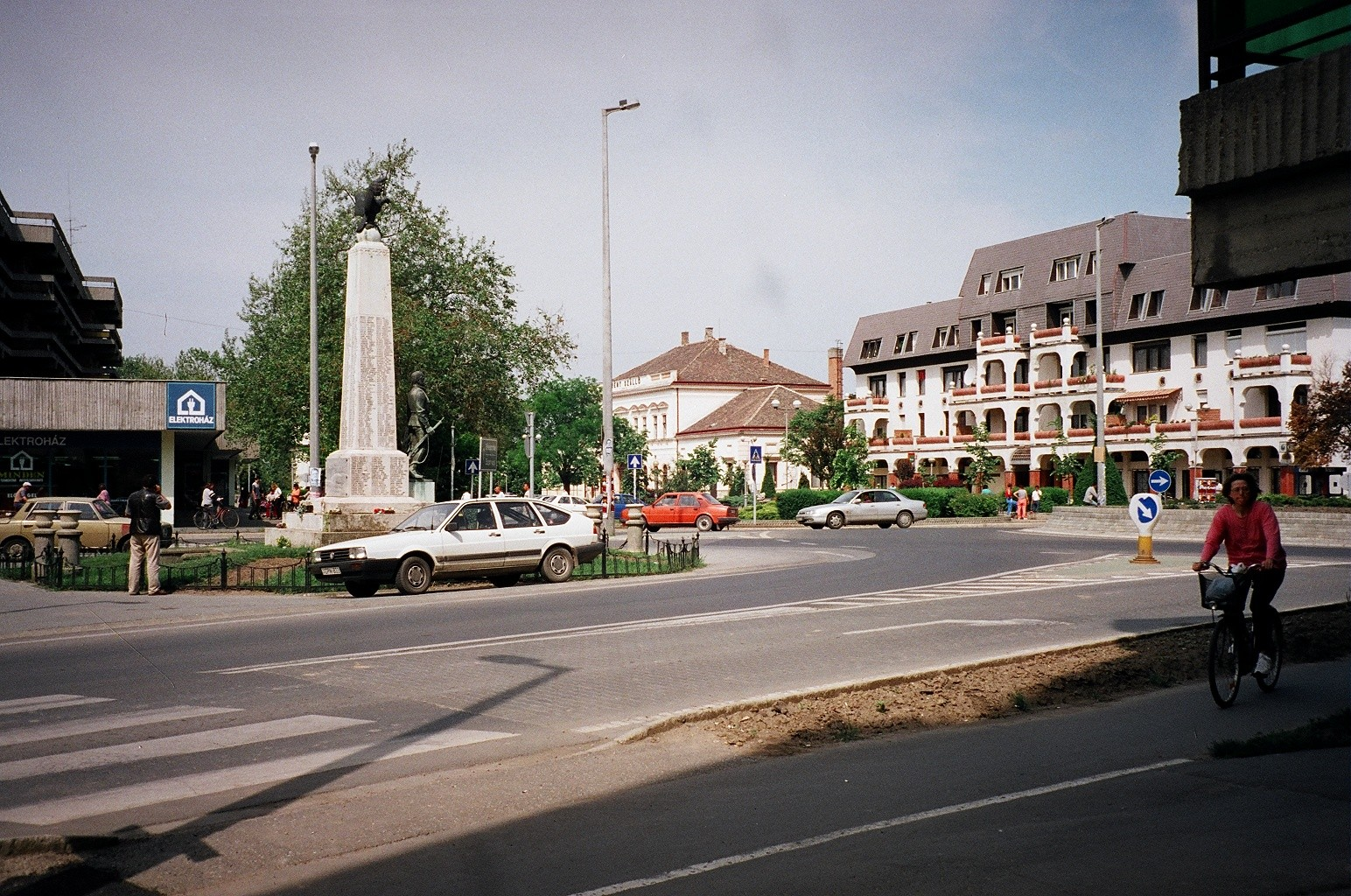 The town square of Mezőberény, Hungary